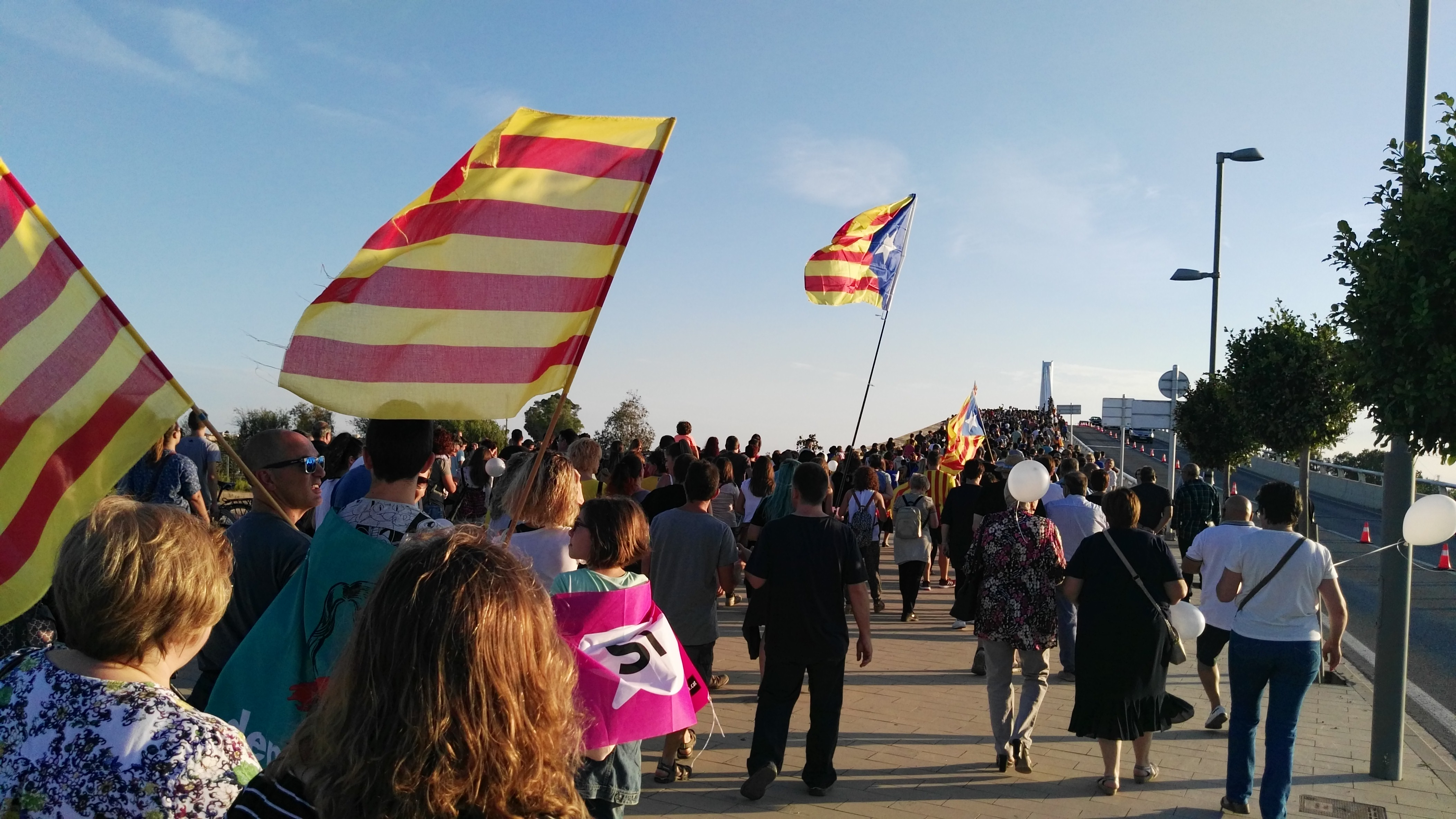 A walk for peace from the town hall of Deltebre across the Lo Passador bridge to Sant Jaume d'Enveja